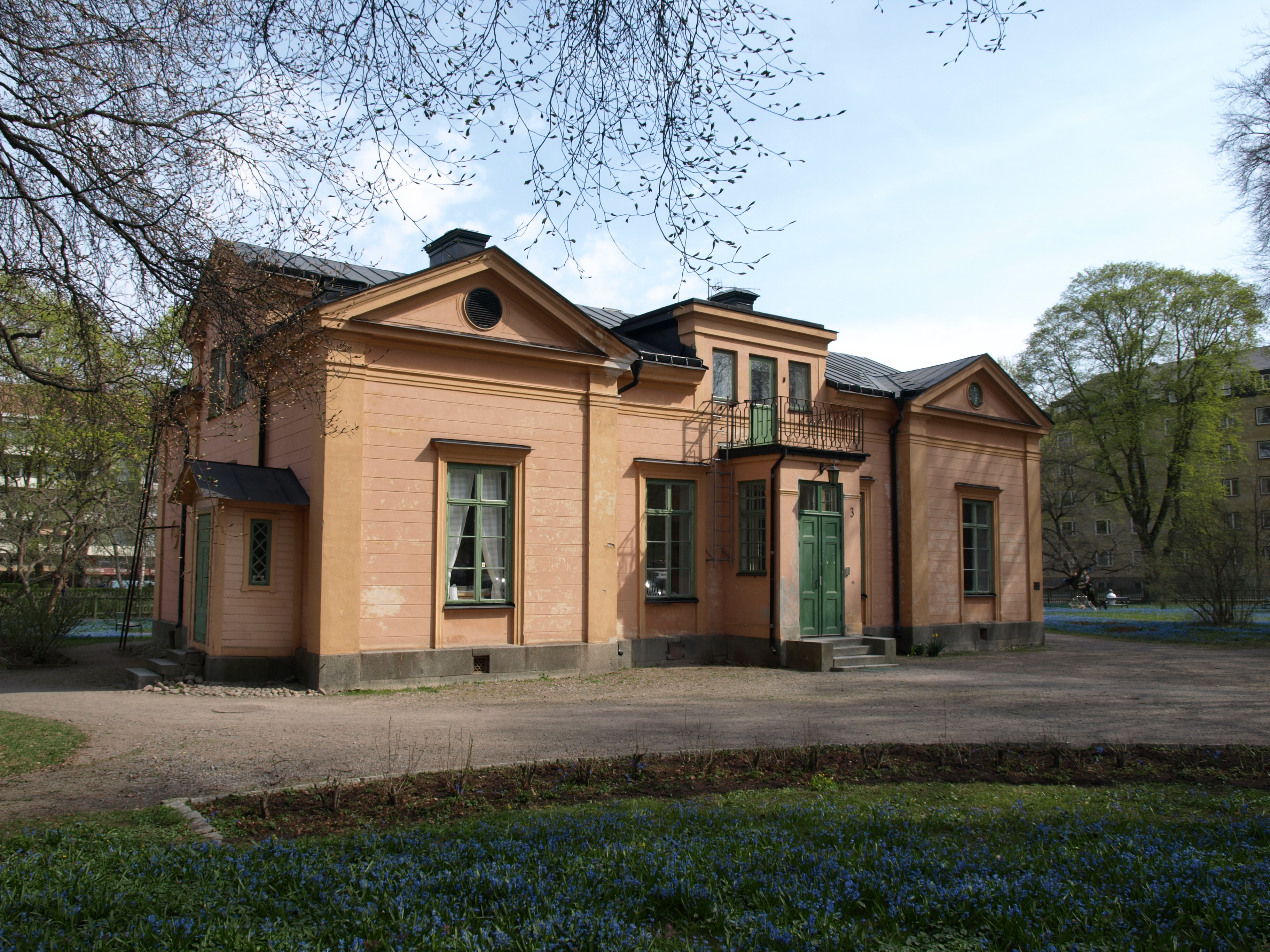 "Rektorsgården" - "The principals' house" in Uppsala, Sweden